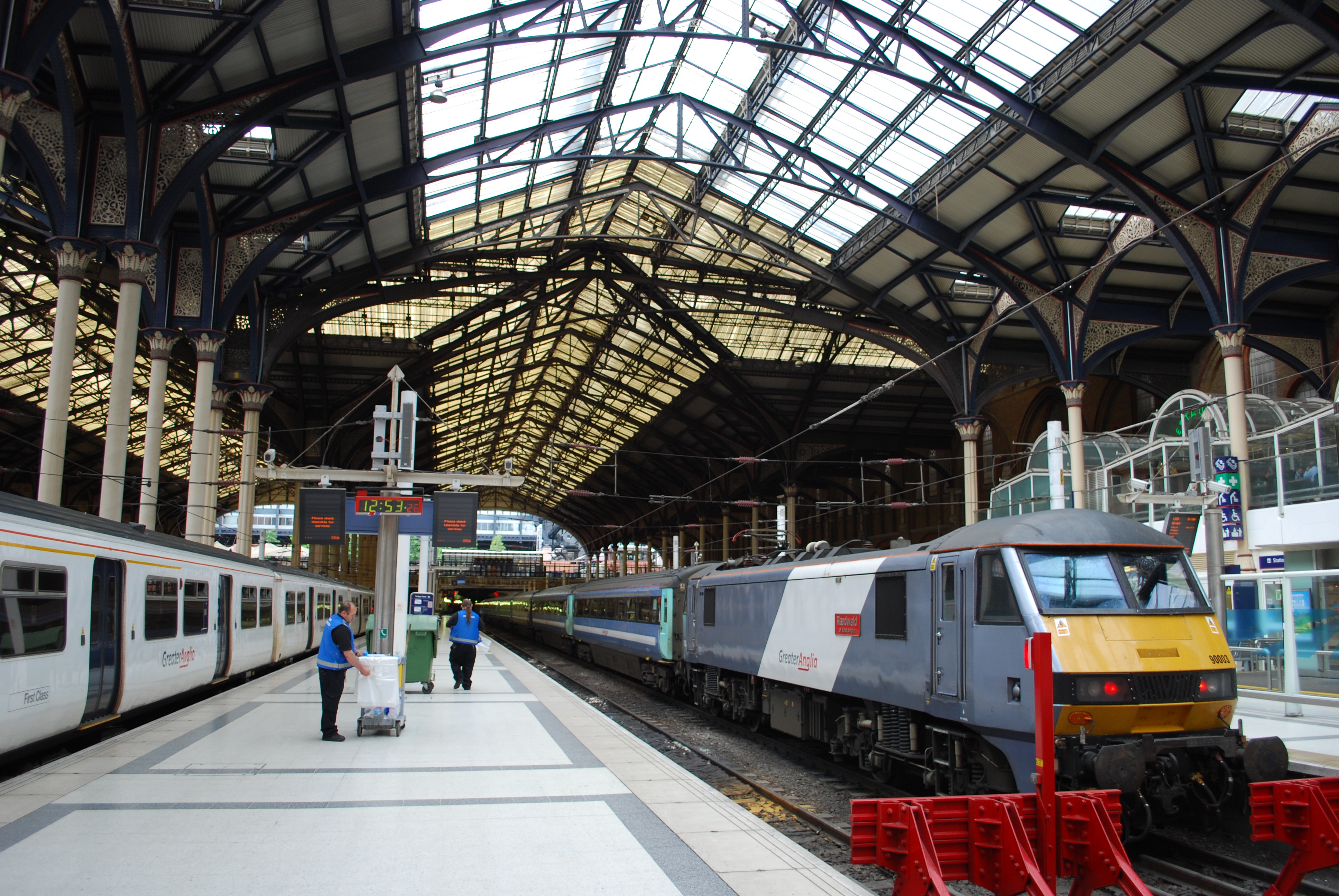 One of the trainsheds at Liverpool Street station, 09/12.